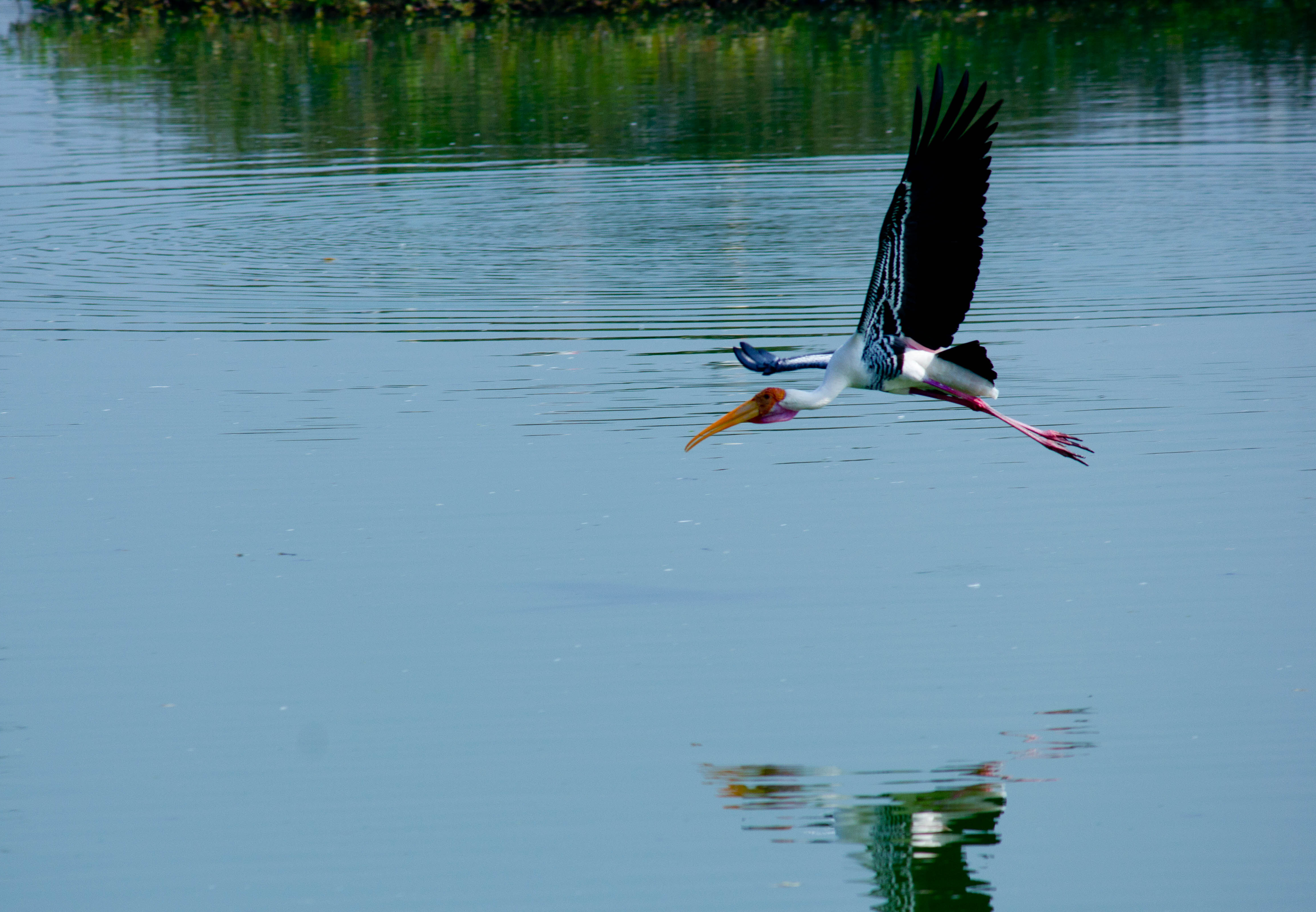 Painted Stork flying over the lake of Vedanthangal Bird Sanctuary